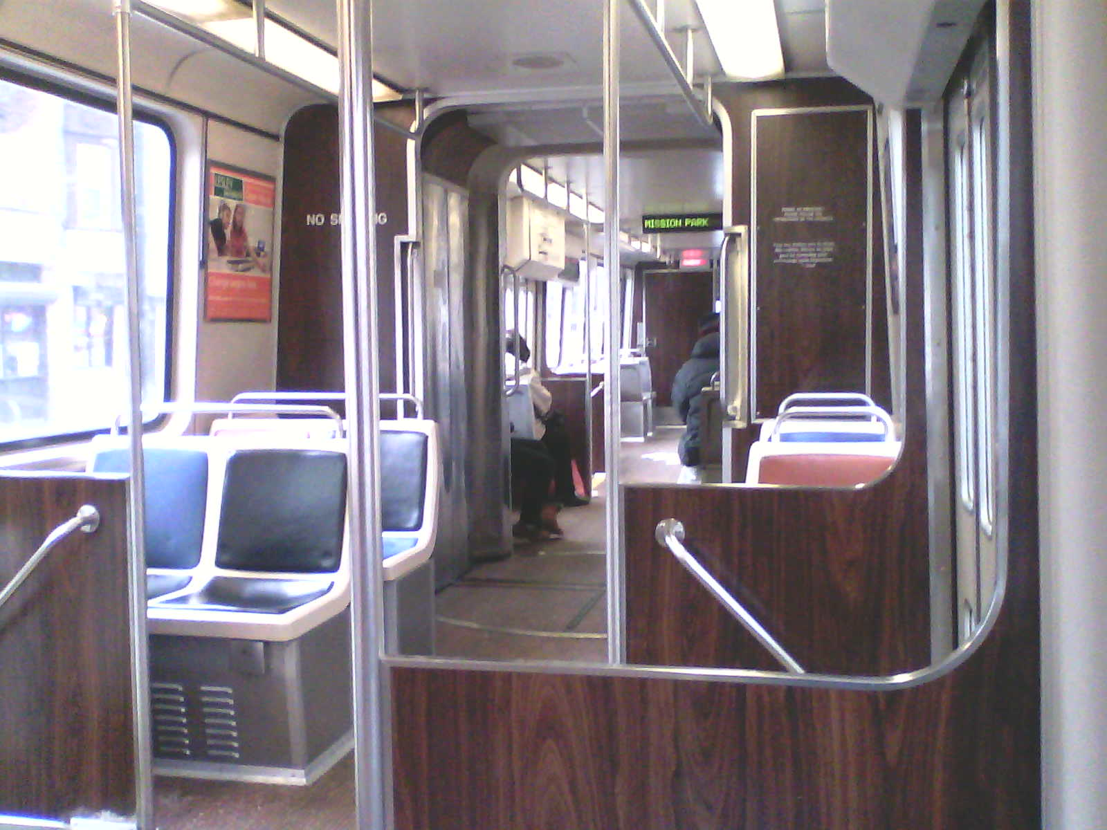 The interior of an Green Line E Line trolley car in January 2013. Taken at Mission Park while outbound to Heath Street.